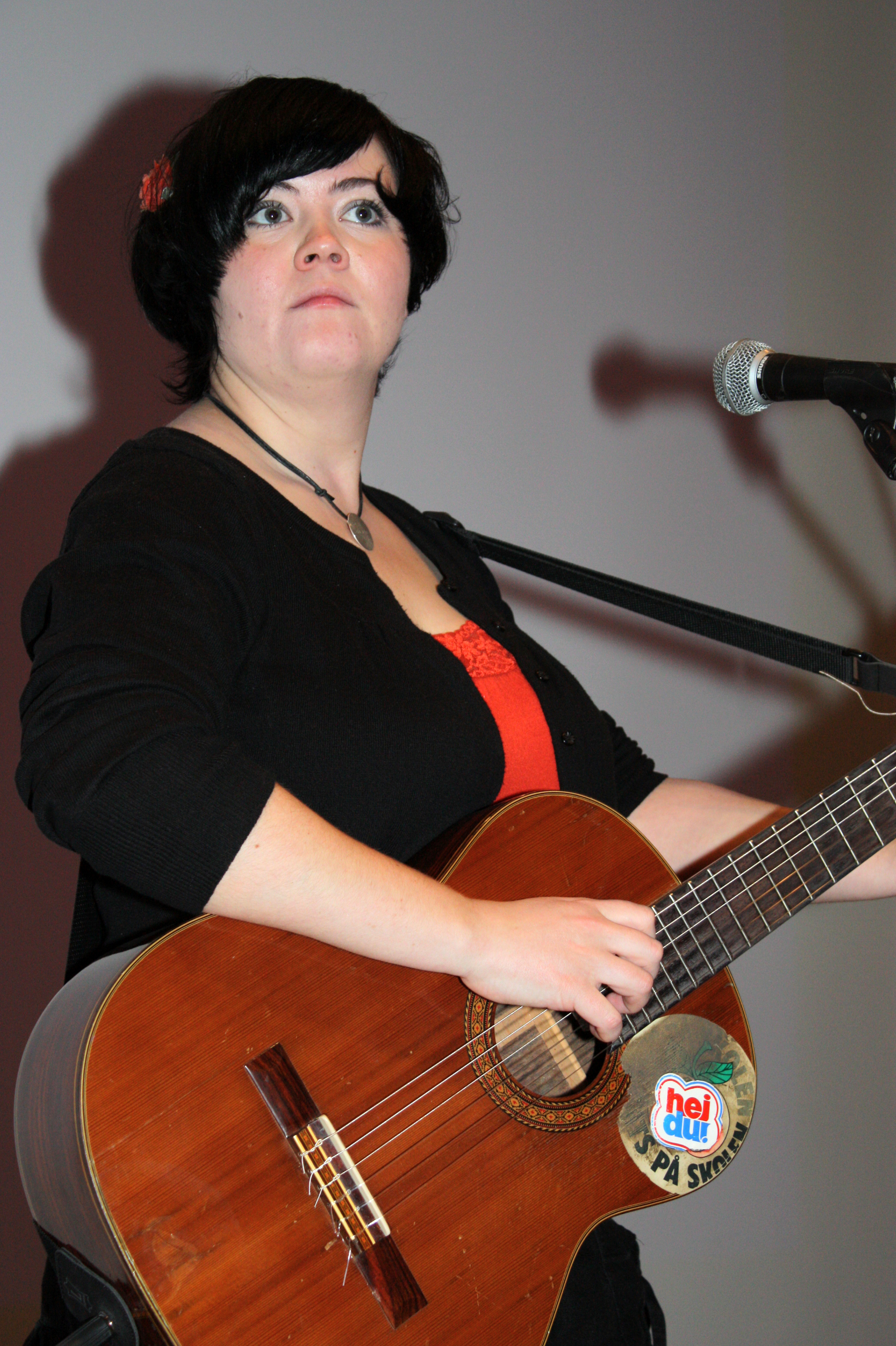 Tonje Unstad, Norwegian musician